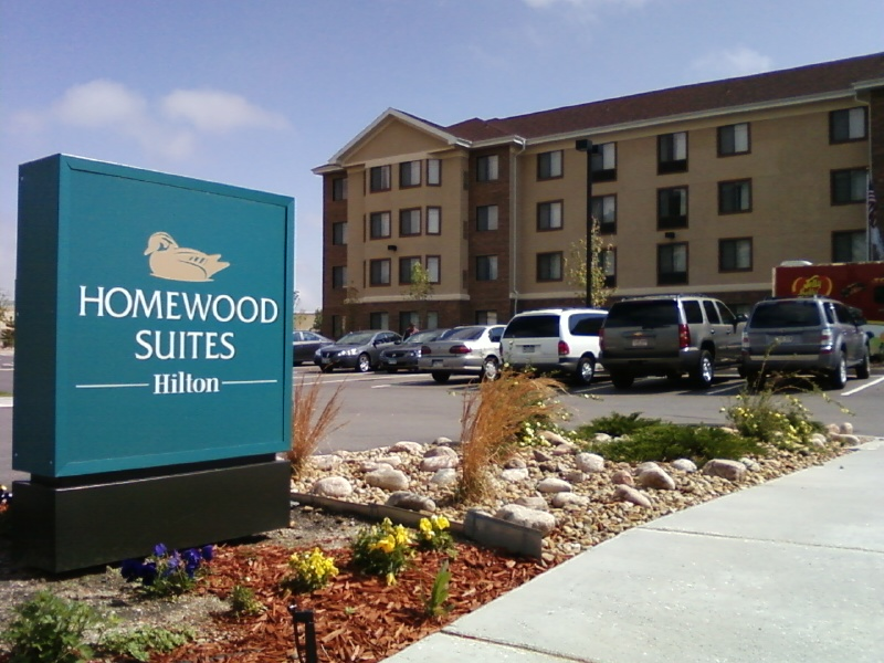 Homewood Suites by Hilton Denver - Littleton at Ken Caryl Business Center.